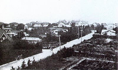 Japanese postcard view of Senzoku Denentoshi, a residential area of Tokyo